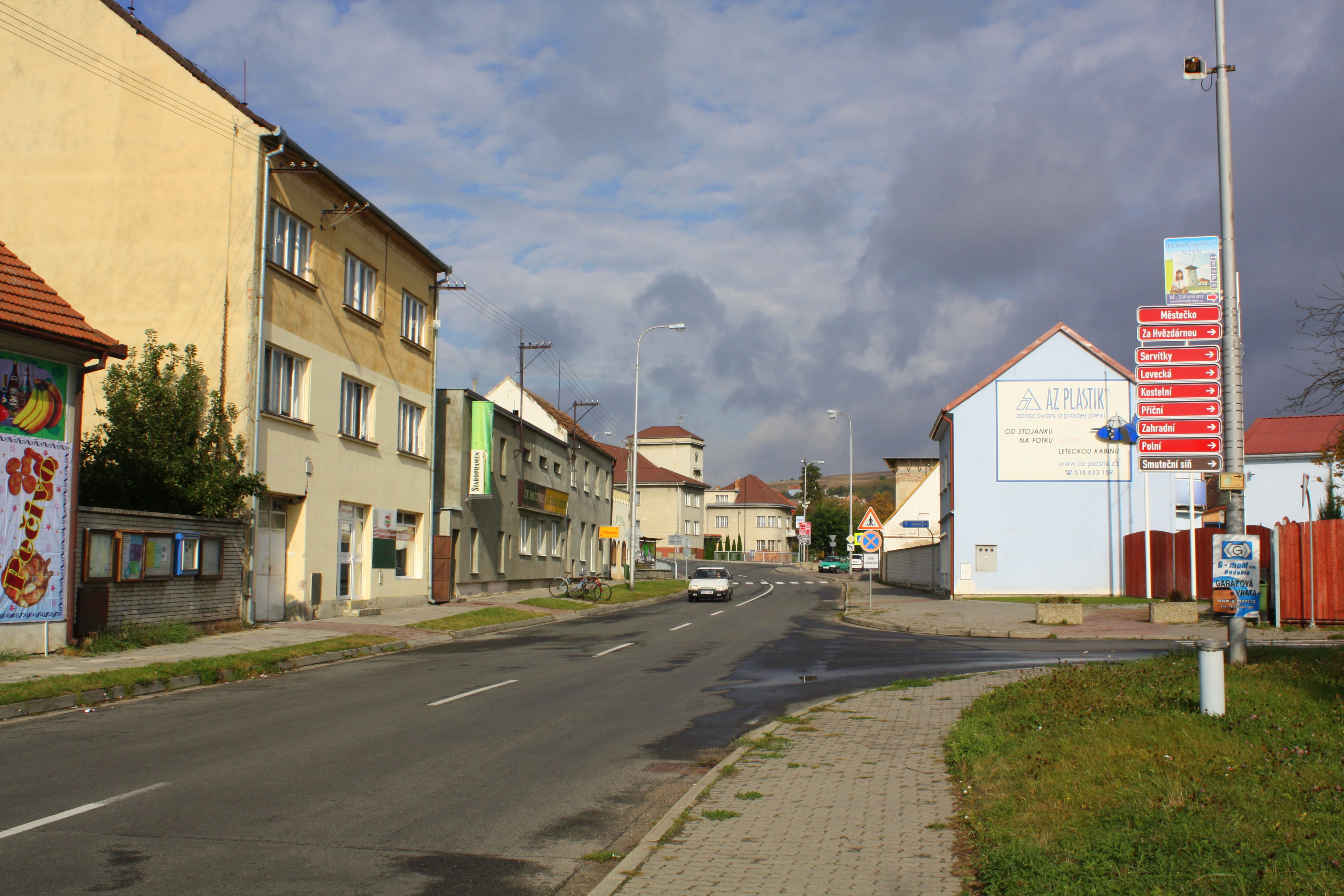 Ždánice, Hodonín district, Czech Republic - main street